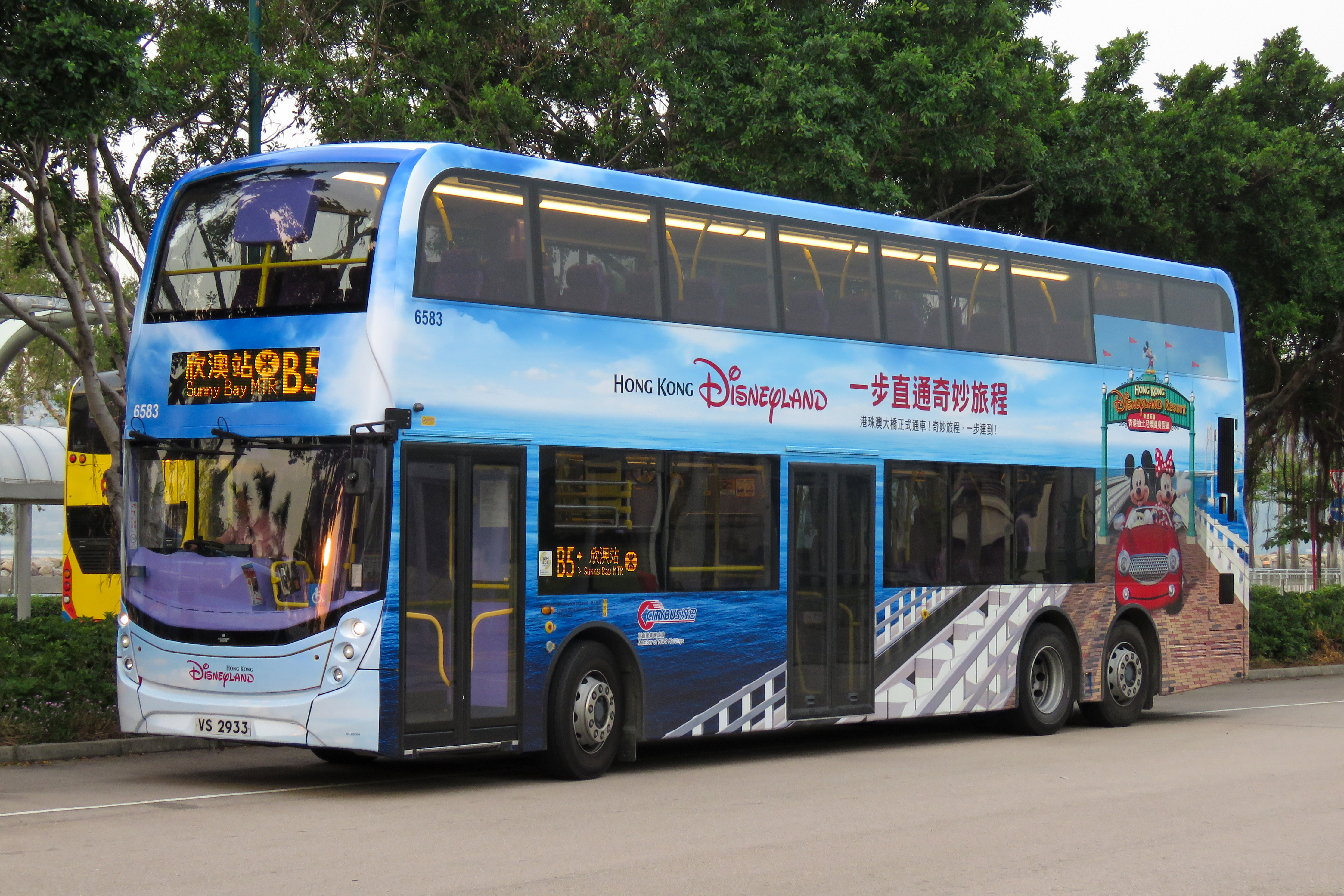 When did you get this new coat, 6583?